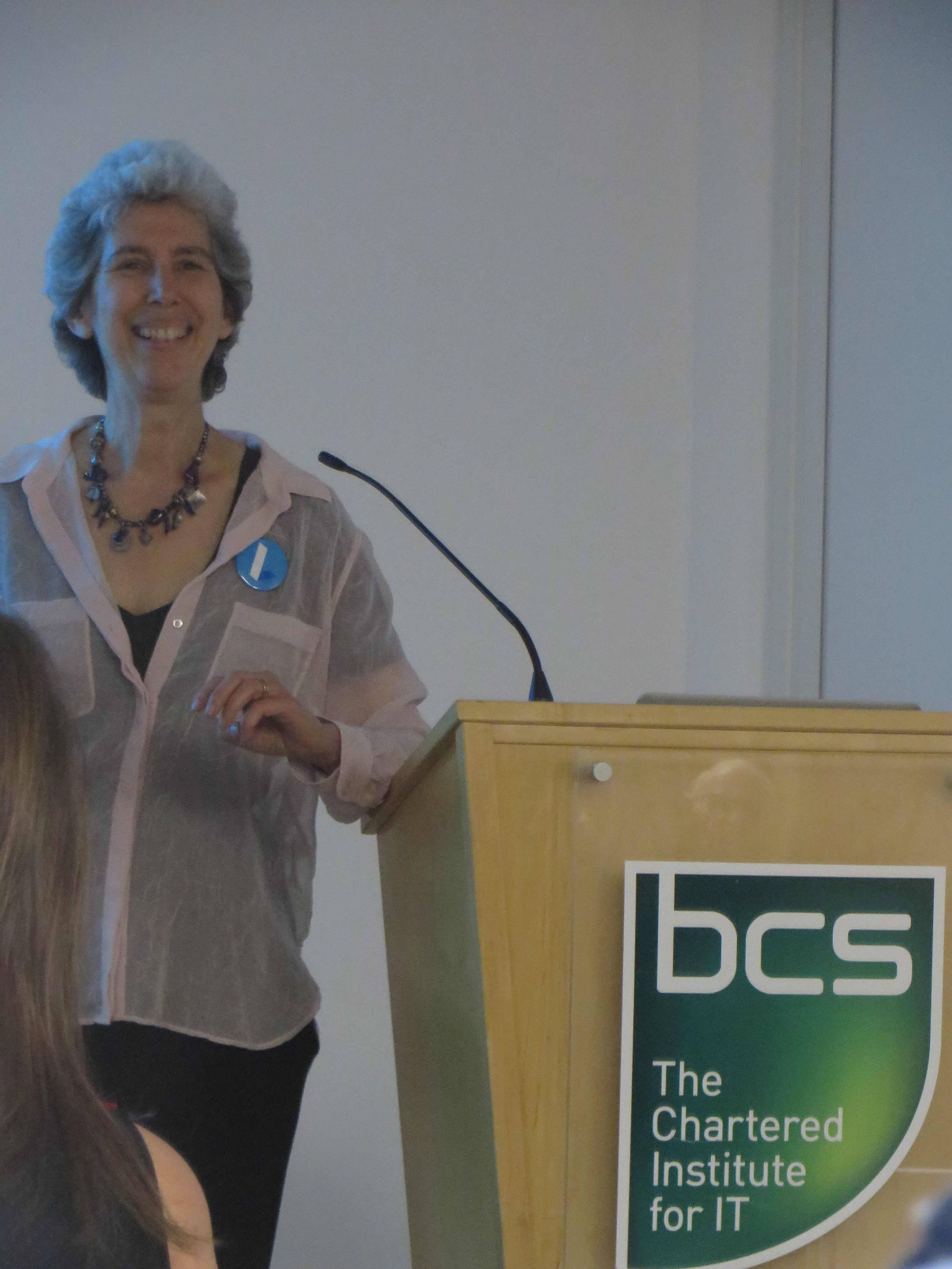 Carla Rapoport giving a presentation on the Lumen Prize for digital art at the EVA London 2016 conference, BCS London offices, Covent Garden, London, England, 13 July 2016.